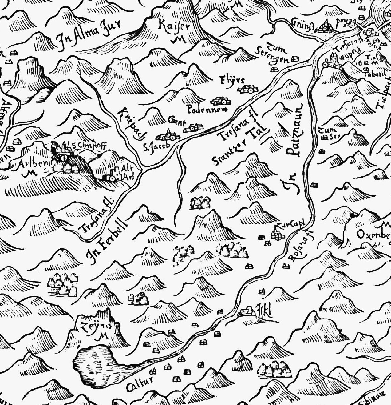 Arlberg, Stanzer Tal and Paznaun; detail of Warmund Ygl's map of Tyrol (1605)